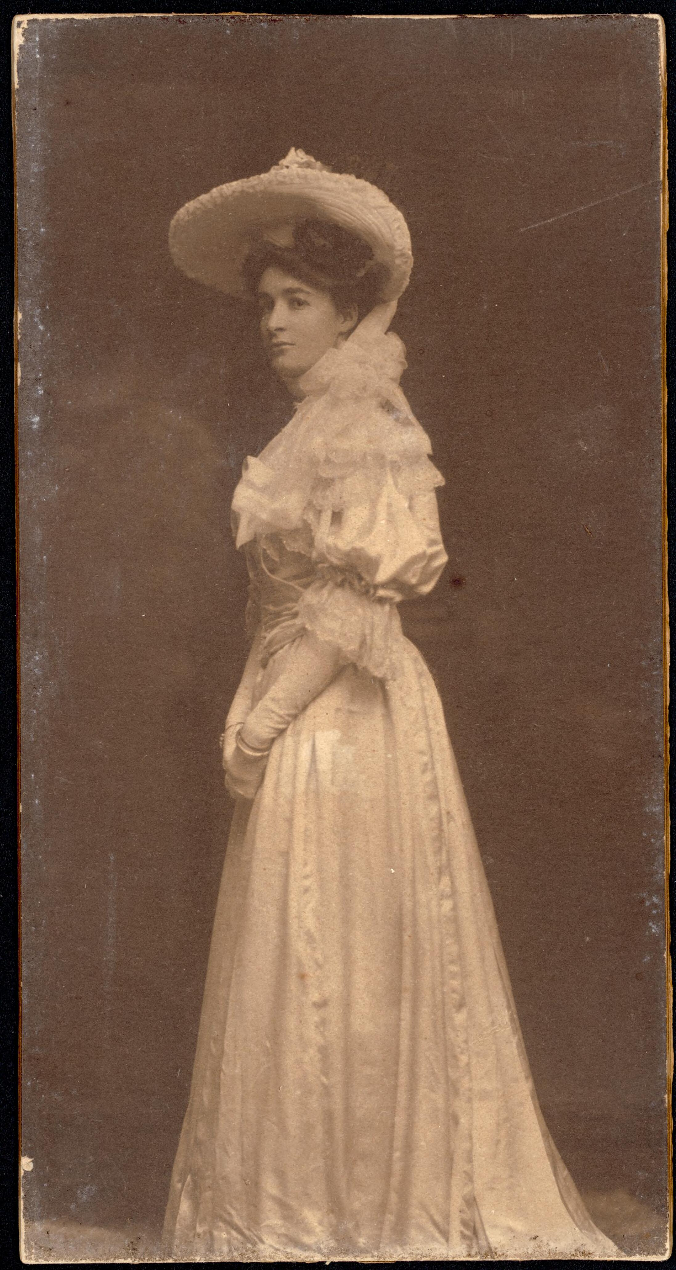 Ivy Deakin in her wedding dress, for her wedding to Herbert Brookes on 3 July 1905. Her father was prime minister of Australia at the time.